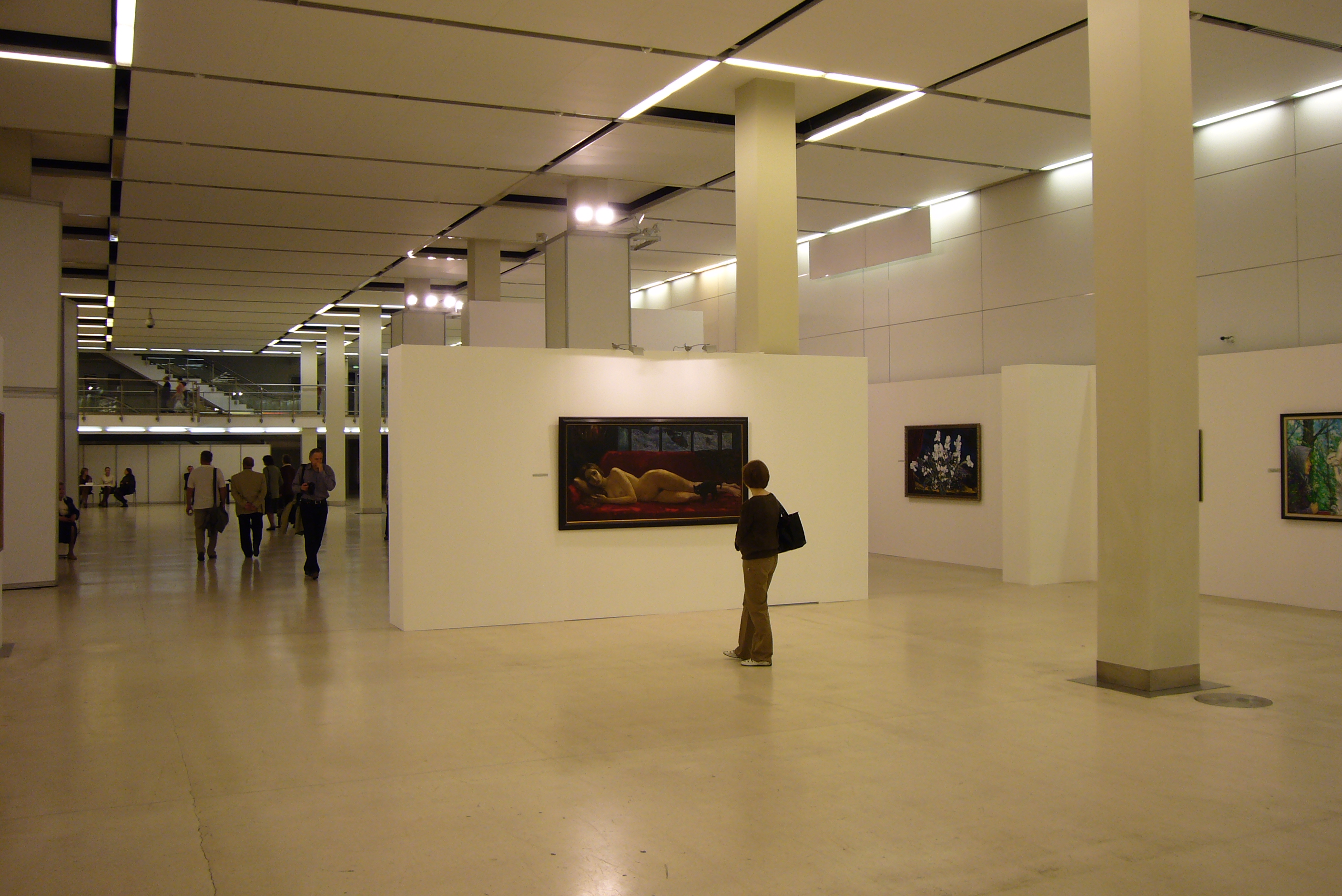 At a personal art exhibition of Ilya Glazunov in the Manezh, Moscow, May 2010.